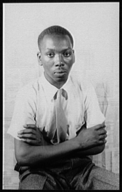 Title: Portrait of Jacob Lawrence Abstract/medium: 1 photographic print : gelatin silver.